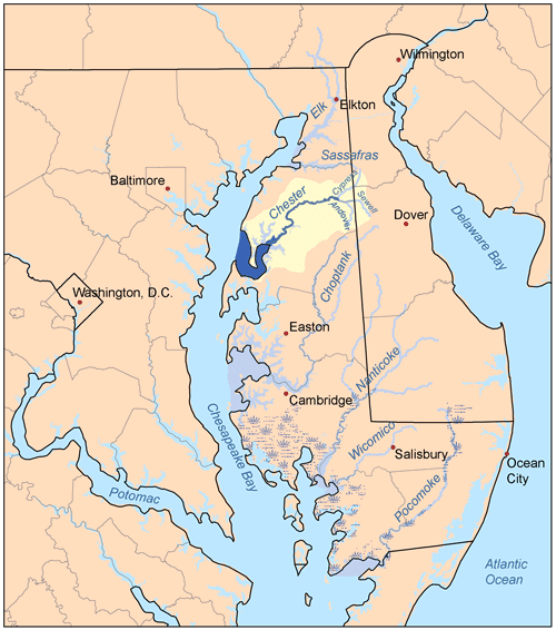 This is a map of the rivers of the Eastern Shore of Maryland with the Chester River and its watershed highlighted. I made it using USGS data.